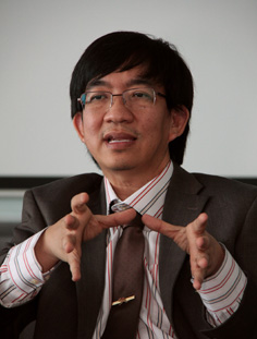 Yohanes Surya, Indonesian notable physicist